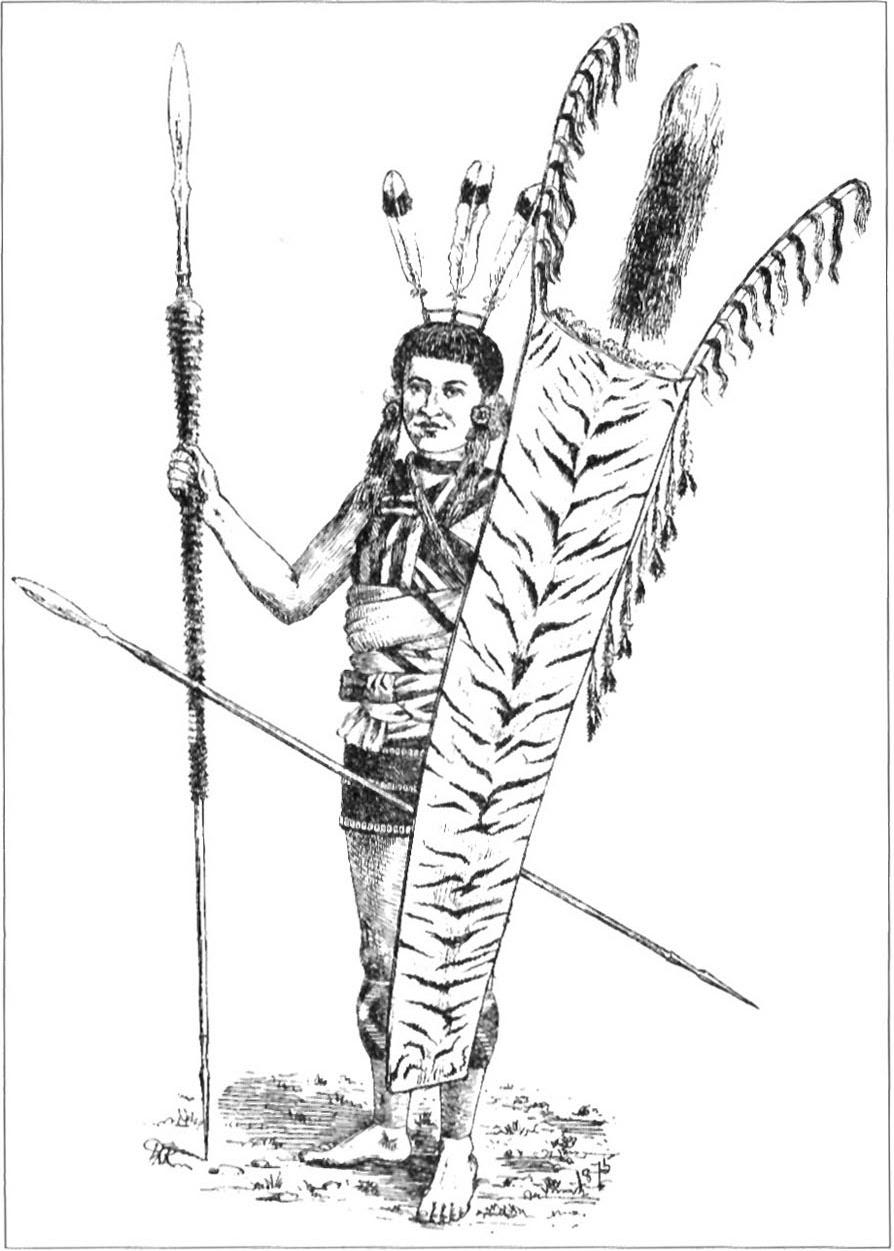 A sketch of an Angami Naga warrior.